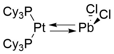 Synergic s-donor-s-acceptor interactions of plumbylene with Pt(PCy3)2